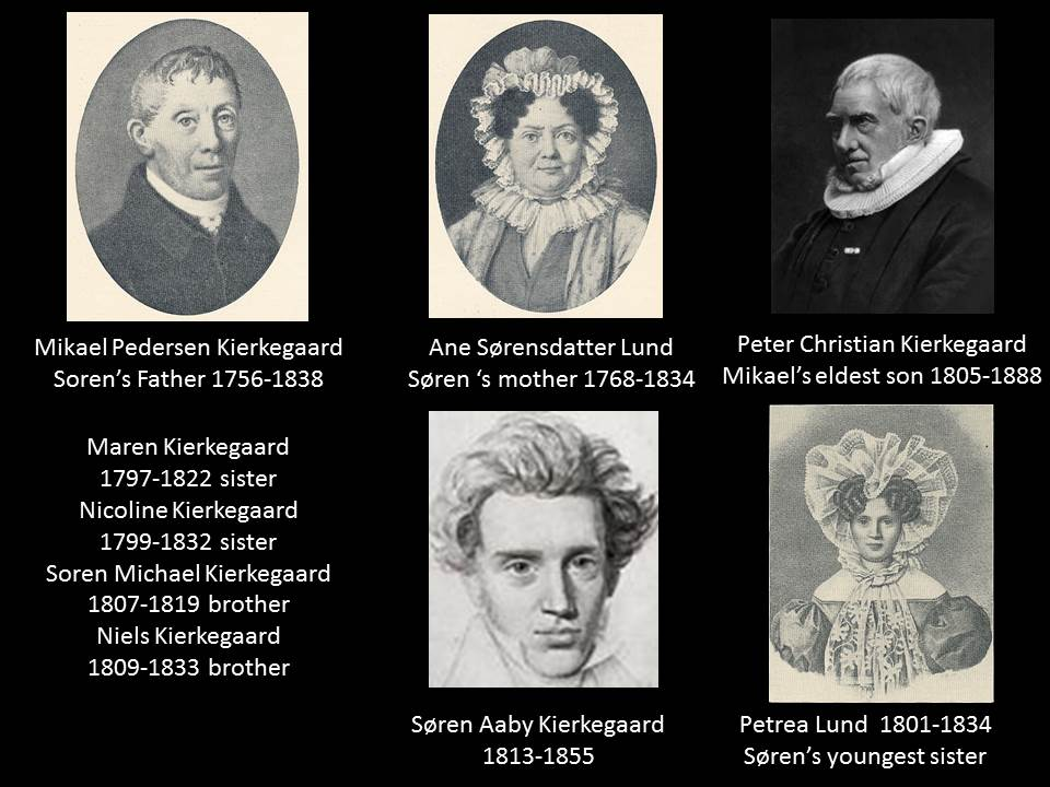 When Mikael Kierkegaard (Michael) died on August 9, 1838 Soren had lost both his parents and all his brothers and sisters except for Peter who later became Bishop of Aalborg in the Danish State Lutheran Church.